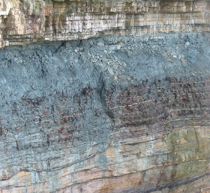 From top to bottom: limestone, glauconitic sandstone, graptolite argillite and sandstone.